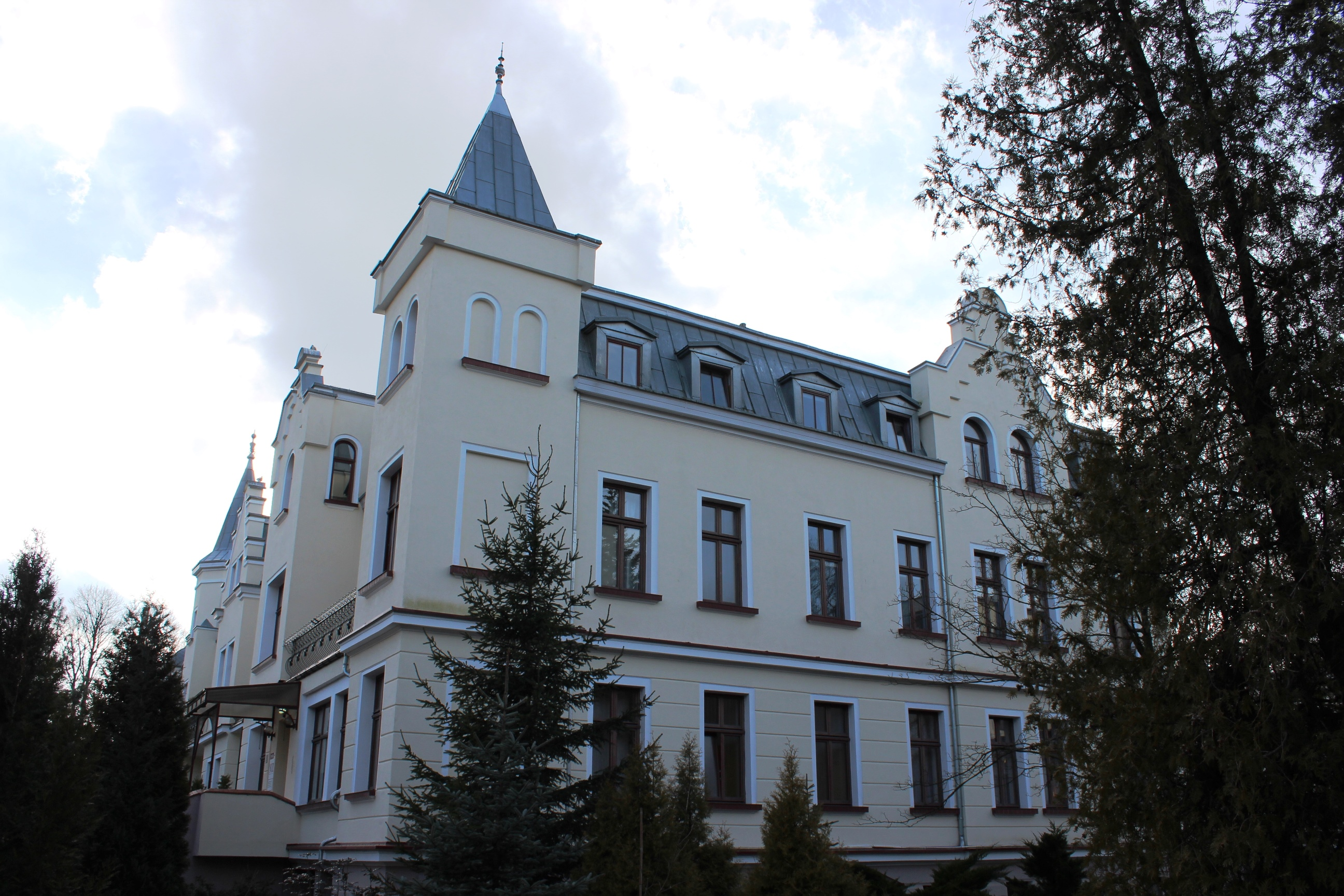 Mewa I Sanatorium in Kołobrzeg - pavilion A